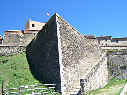 Fort Lagarde in the village Prats-de-Mollo-la-Preste, Departement of Pyrénées-Orientales, France.